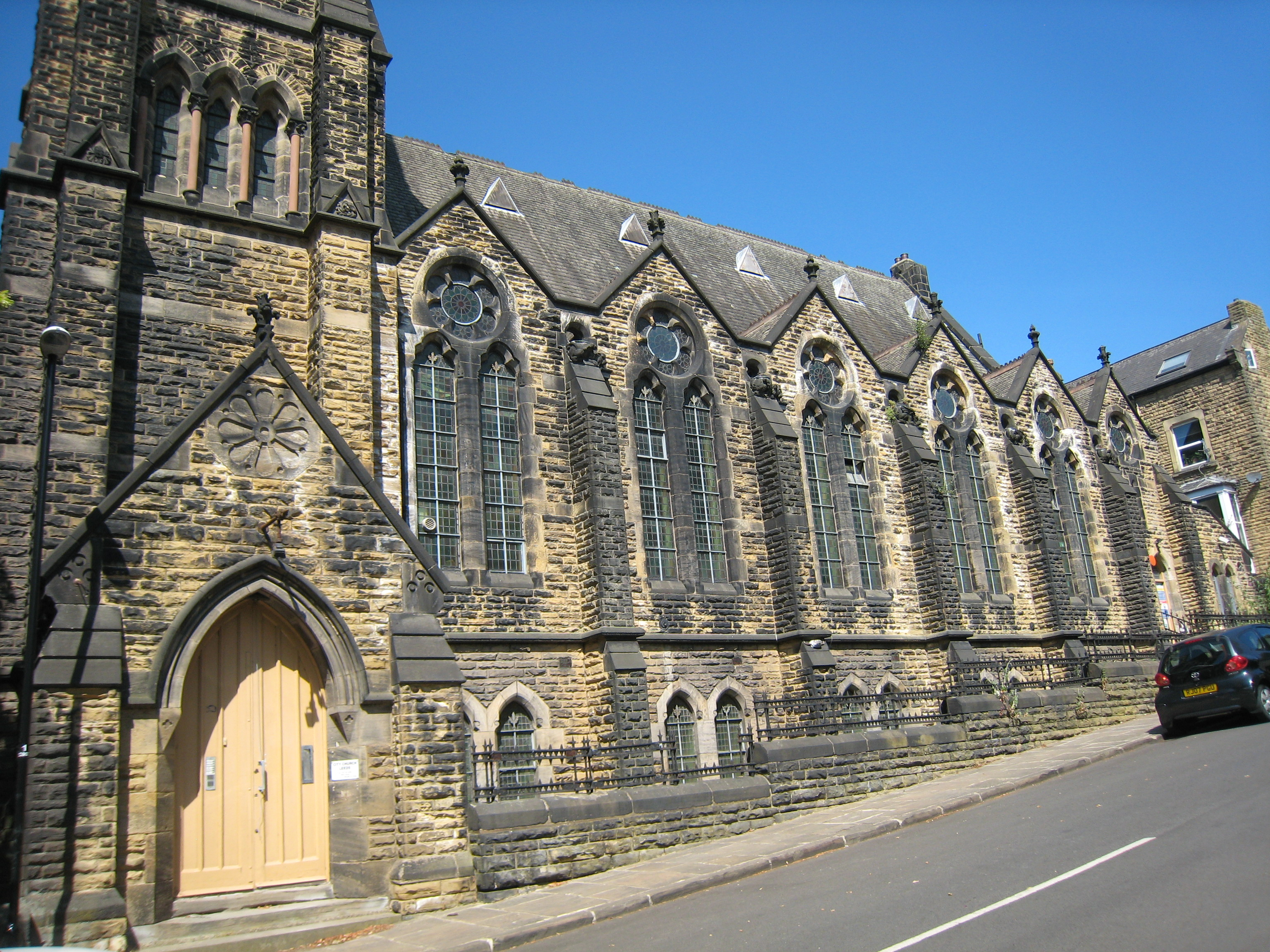 The former Headingley Concregational Church on the corner of Headingley Lane and Cumberland Road, Headingley, Leeds. Has been City Church and Ashwood Hall. Cumberland Road view.